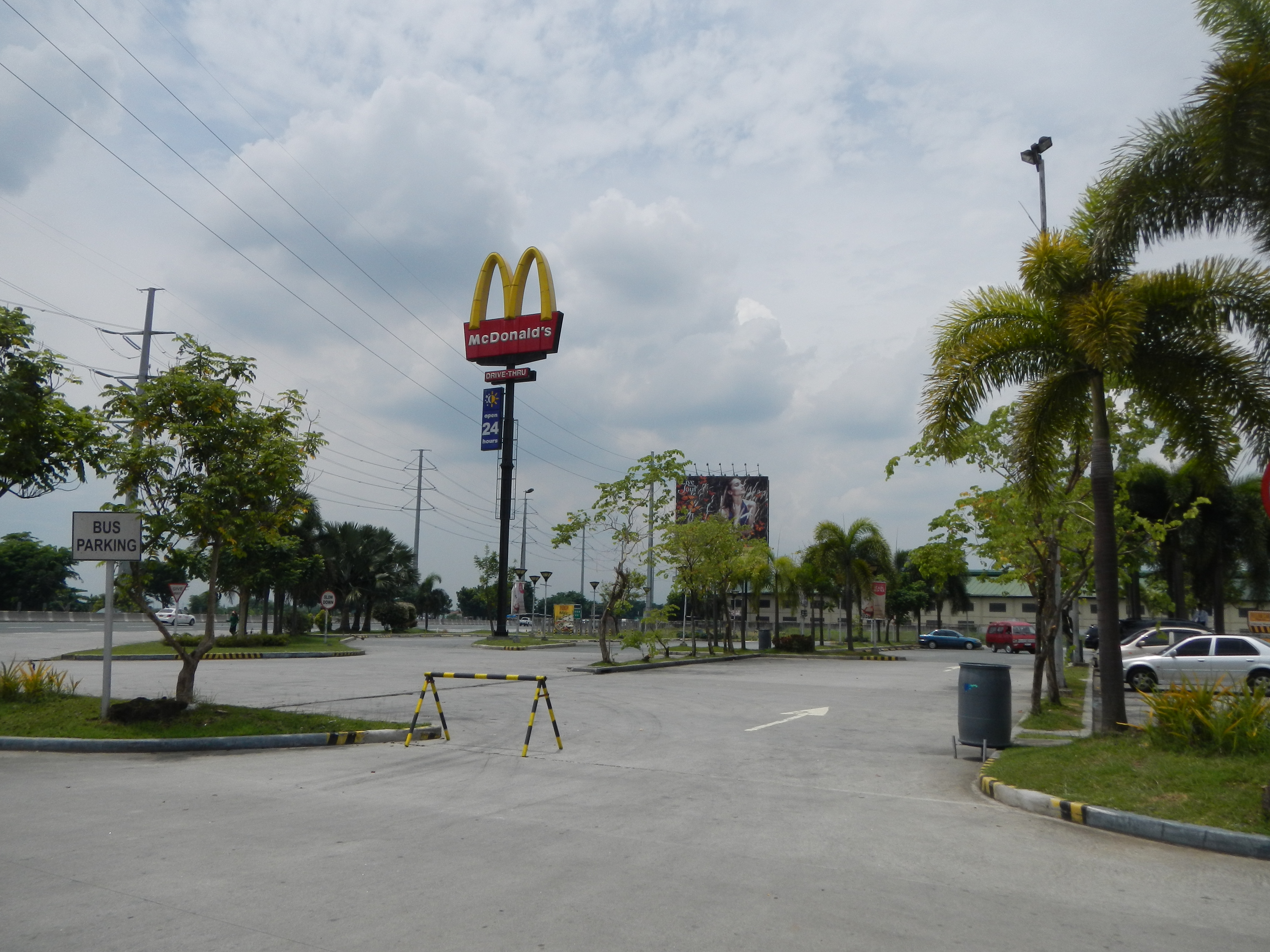 Caltex Service Area near Total Service Station, KM 40, Barangay Malitlit, SLEX, Sta Rosa, Laguna, Philippines - [1][2] -- South Luzon Expressway[3] The South Luzon Expressway (SLE or SLEx), which is formerly called the South Superhighway (SSH), and officially known as Radial Road 3 or R-3, is a network of two expressways that connects Metro Manila to the provinces of the CALABARZON region in the Philippines. The first expressway is the Metro Manila Skyway System, operated jointly by the Skyway Operation and Management Corporation (SomCo) and Citra Metro Manila Tollways Corporation (CMMTC). The second expressway, the South Luzon Tollway or Alabang-Calamba-Sto.Tomas Expressway (ACTEX), is jointly operated by the South Luzon Tollway Corporation. Santa Rosa City [4]